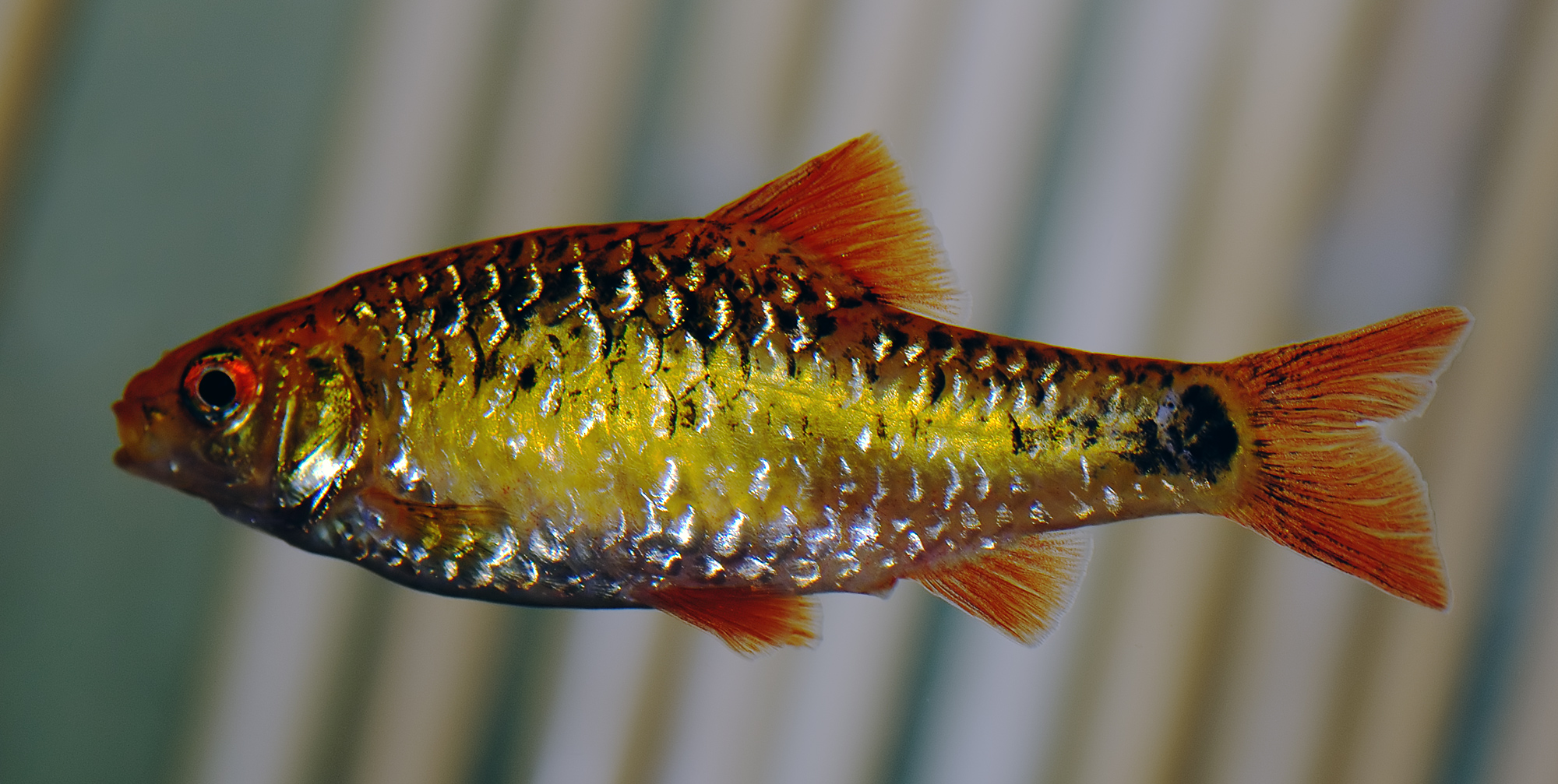 This image shows a Gold barb (Puntius semifasciolatus).